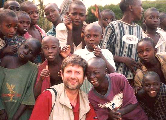 Street children in Ndera (capital of Gasabo district in Kigali Province, Rwanda) with Stefan Stec.